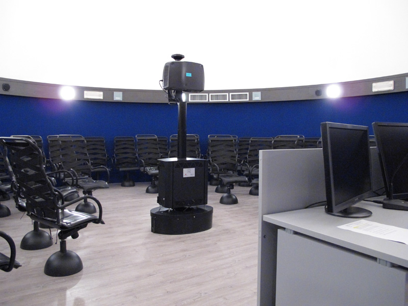 Fondazione Scienza e Tecnica's planetary